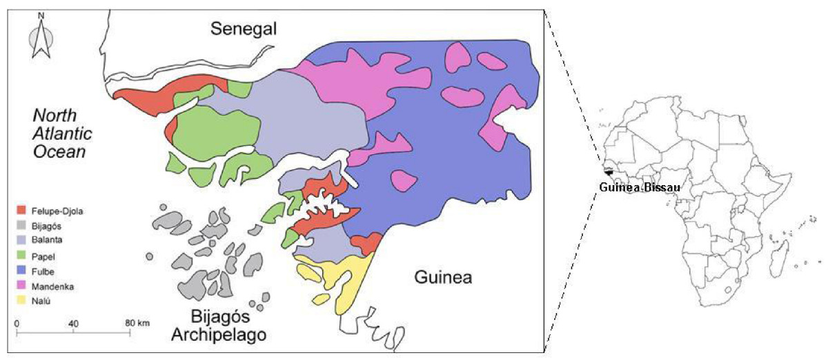 Geographic location of Guinea-Bissau and present-day settlement pattern of the ethnic groups. The main ethnic groups now present in Guinea-Bissau were already settled in the region in the 15th century, at the time of arrival of the Portuguese. With the establishment of the Atlantic slave trade the region experienced an input of Europeans, in their vast majority males, whose genetic imprint is undetermined. Many of the ethnic barriers were brought down, in particular the endogamic practices, promoting an intense cultural contact and higher levels of admixture between groups than before.